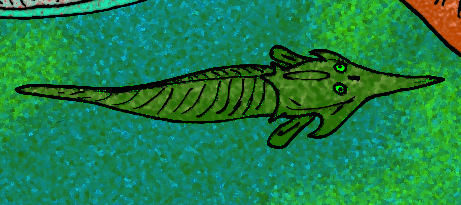 The Osteostracan fish, Boreaspis, of Devonian Spitsbergen (C) Stanton F. Fink